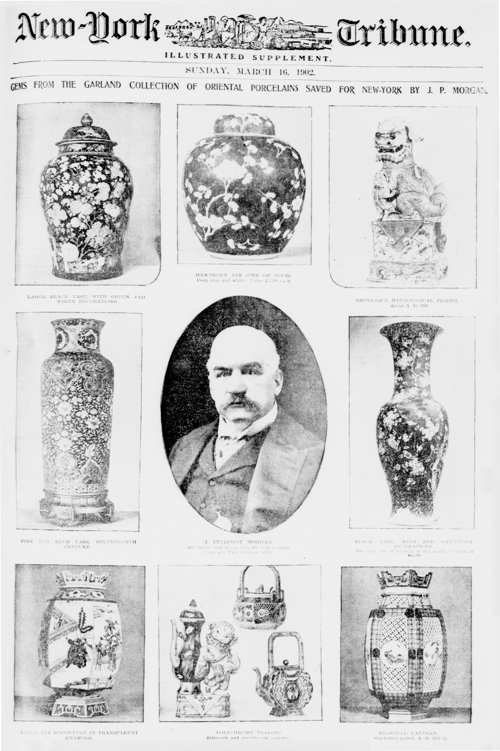 New-York tribune. (New York [N.Y.]) 1866-1924 March 16, 1902, Image 29 Notes: Cover, illustrated supplement. Format: Newspaper page, from microfilm Rights Info: No known restrictions on reproduction. Repository: Library of Congress, Serial and Government Publications Division, Washington, D.C. 20540 USA. Part Of: Chronicling America (Library of Congress) (DLC) - Persistent URL: More information about the Chronicling America Web site is available at